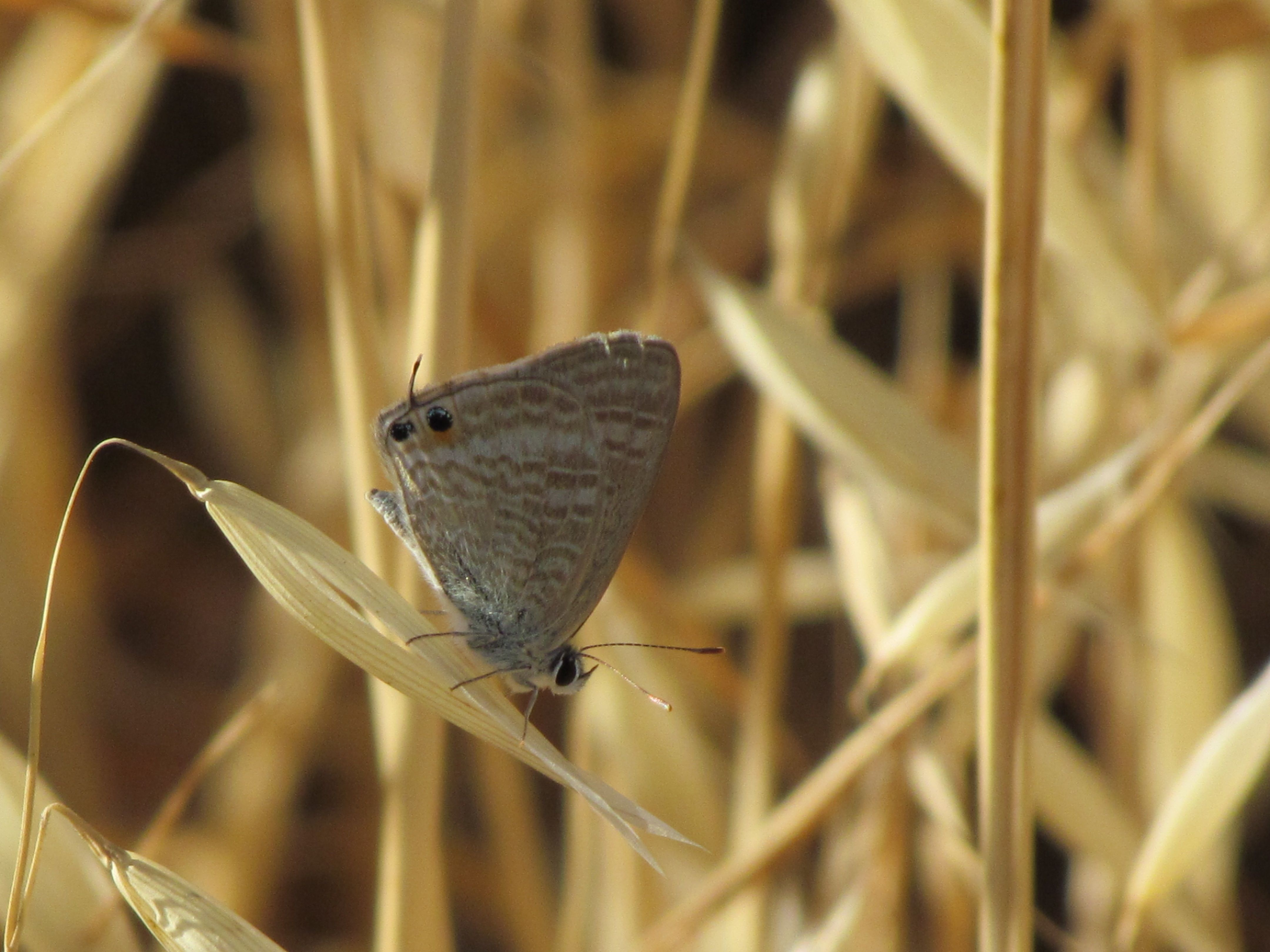 כחליל האפון צולם בגבעה הצרפתית בירושלים במאי 2011